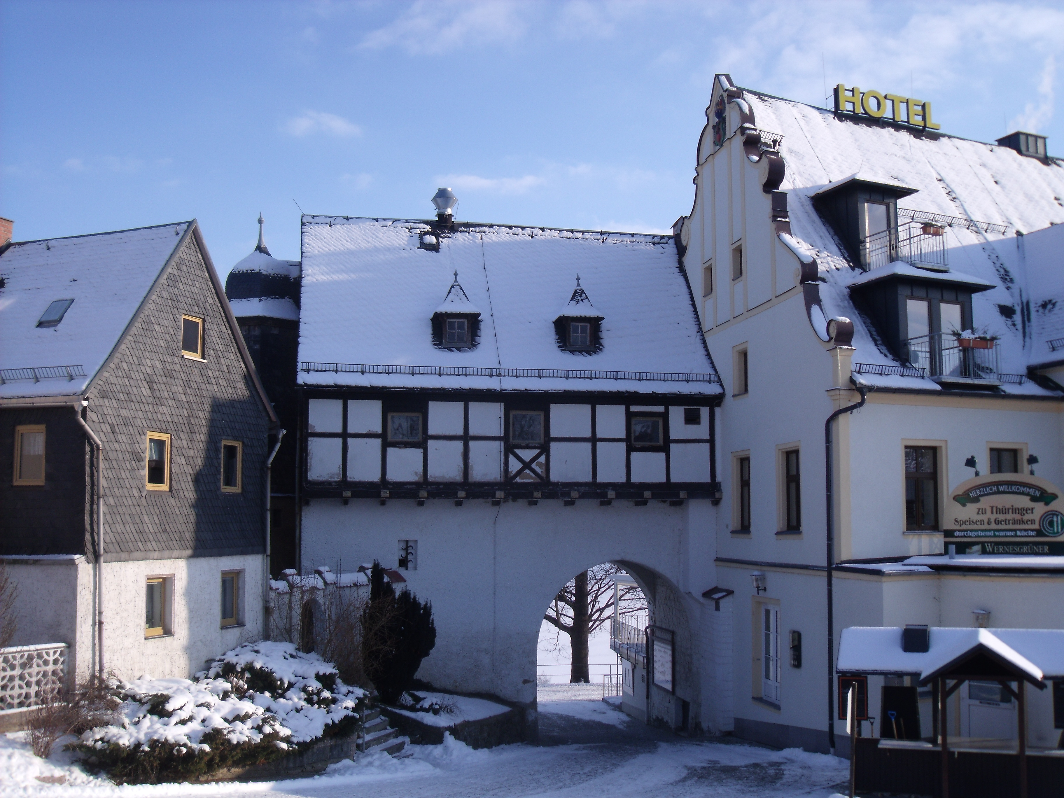 Old city gate in Saalburg, Saale-Orla-Kreis, Thuringia, Germany, in February 2012